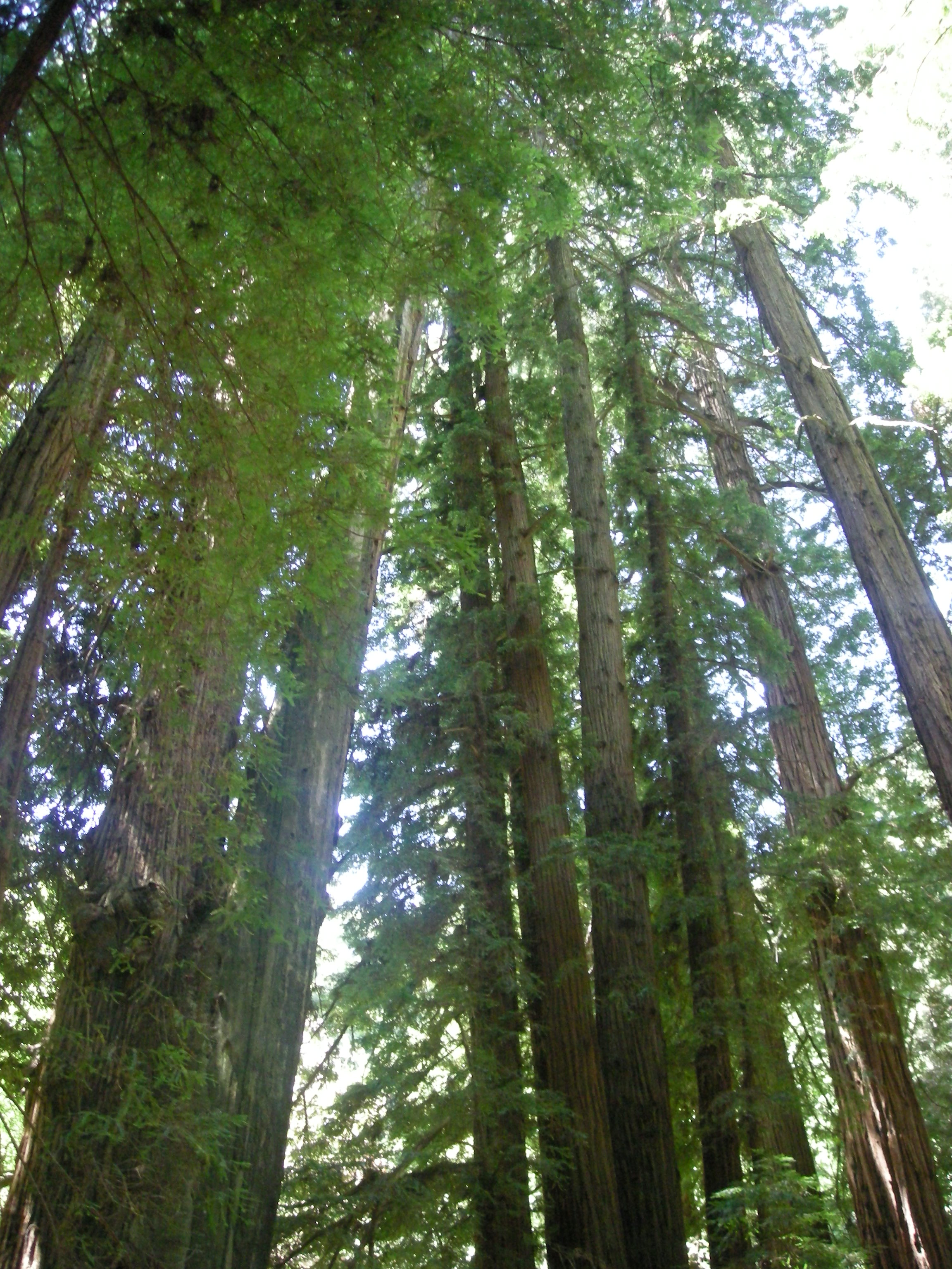 Redwood trees in Muir Woods National Monument in Marin County, California (United States).